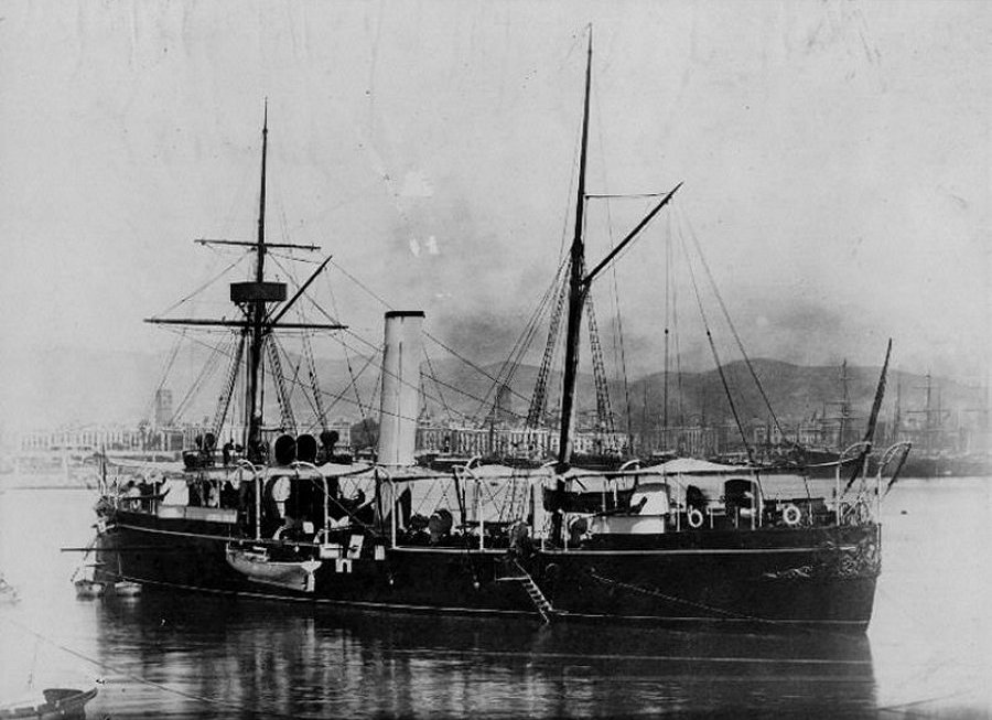 Spanish Navy cruiser Isla de Luzón in the late 1880s.